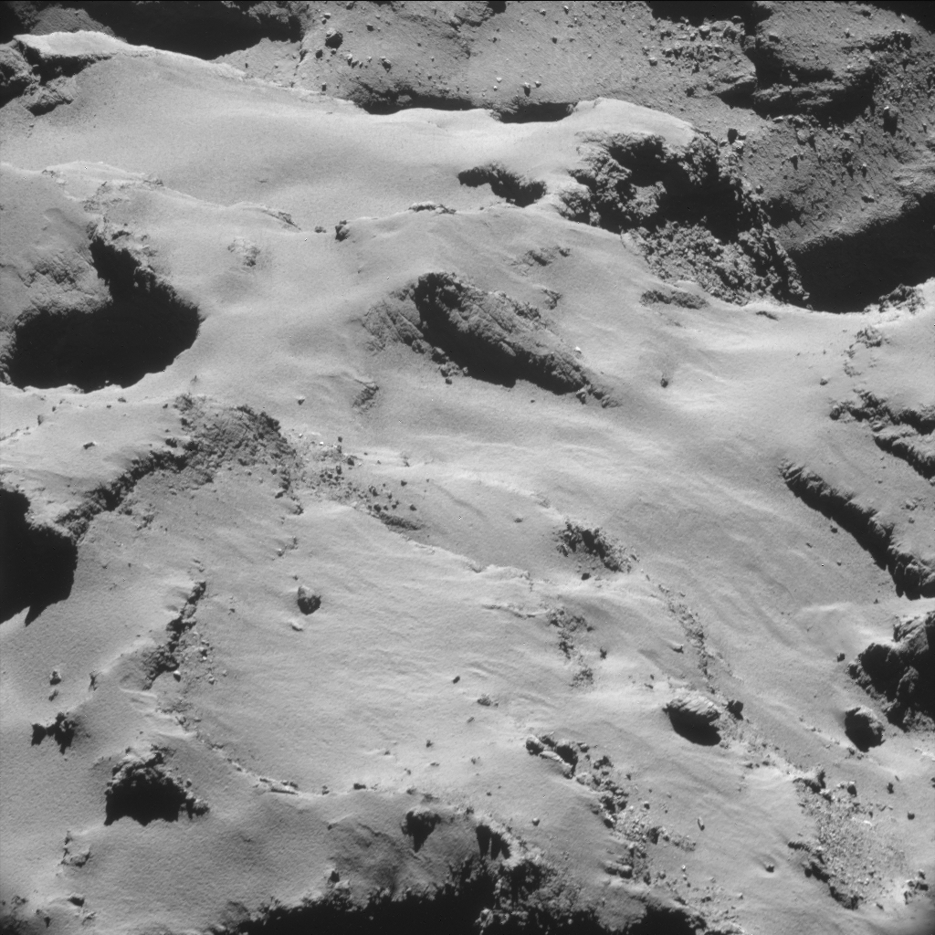 Full-frame Rosetta navigation camera (NAVCAM) image taken on 15 October 2014 at 9.9 km from the centre of comet 67P/Churyumov–Gerasimenko. NAVCAM image sequences are now being taken as small 2×2 rasters and only part of the comet is seen in each of the four images. A montage of all four images from this sequence is available here.